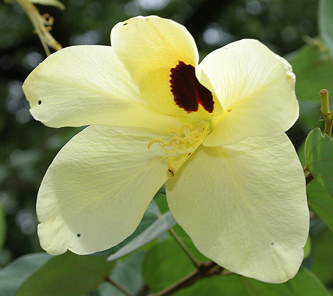 Yellow Bauhinia,Yellow Bell Orchid Tree, Vanasampige, Tiruvatti or Kolakattai mandarai Bauhinia tomentosa in Hyderabad , India.